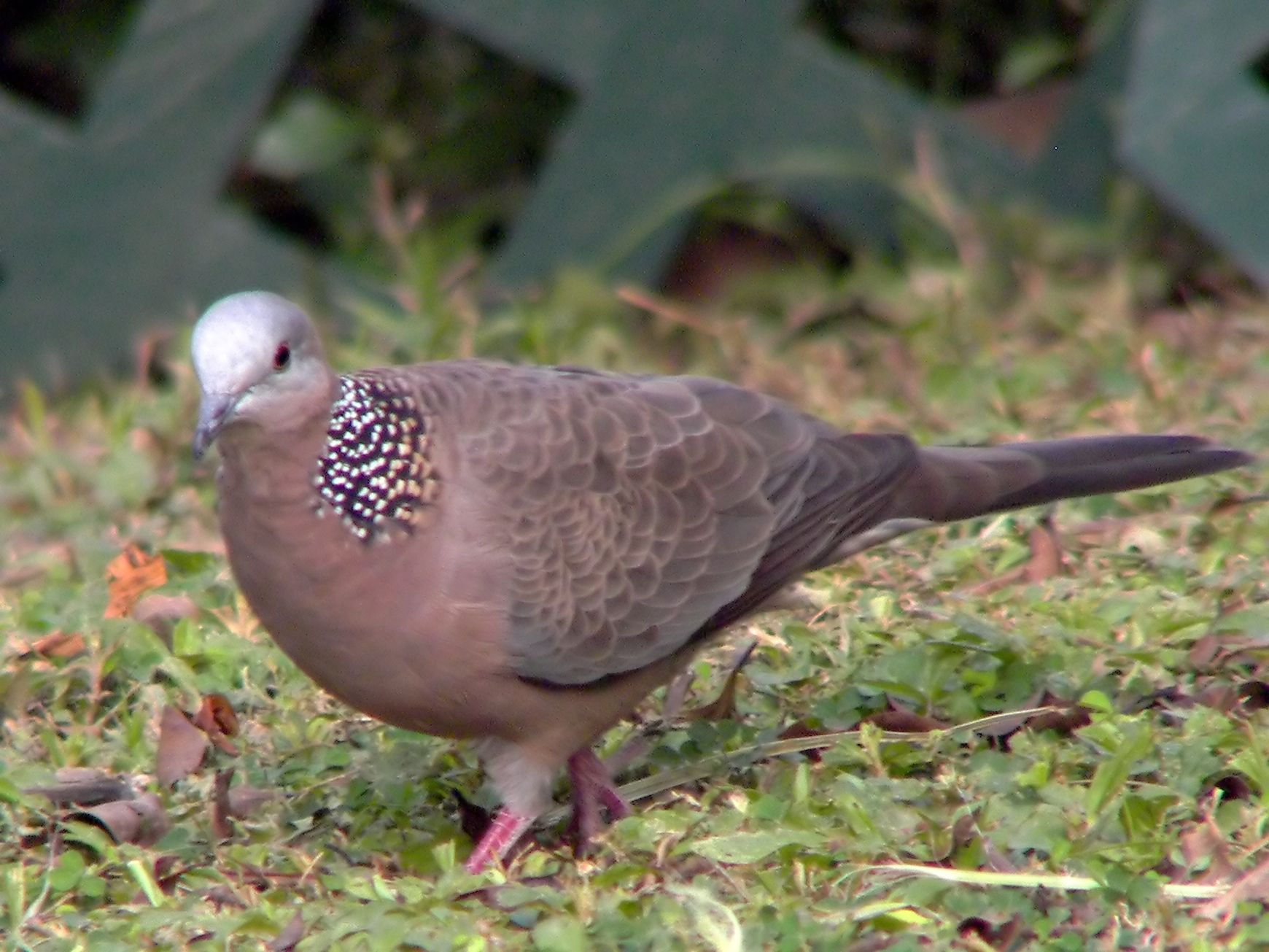 Streptopelia chinensis (tourterelle tigrine), Kowloon, Hong Kong, China